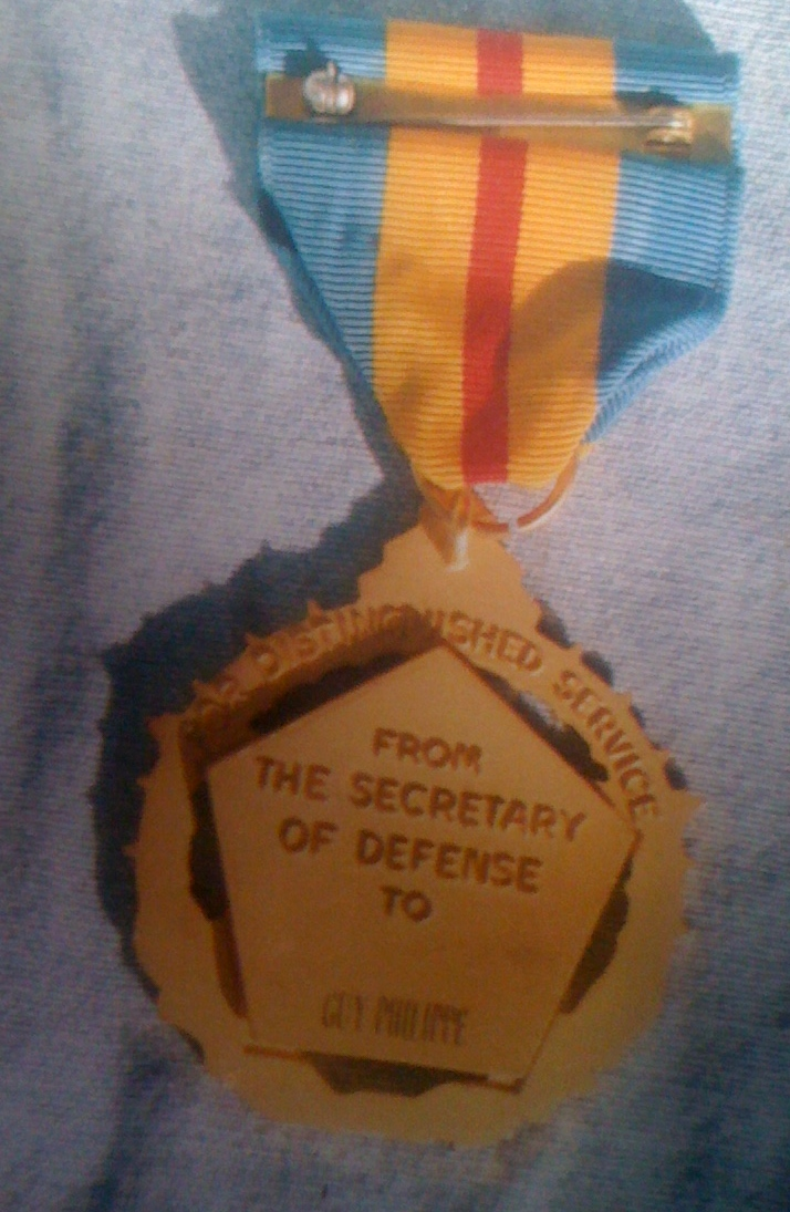 DSM presented to Guy Philippe, Haitian commander who led force that removed President Aristide, February, 2004;Other information: DSM authorized for Guy Philippe by President of United States